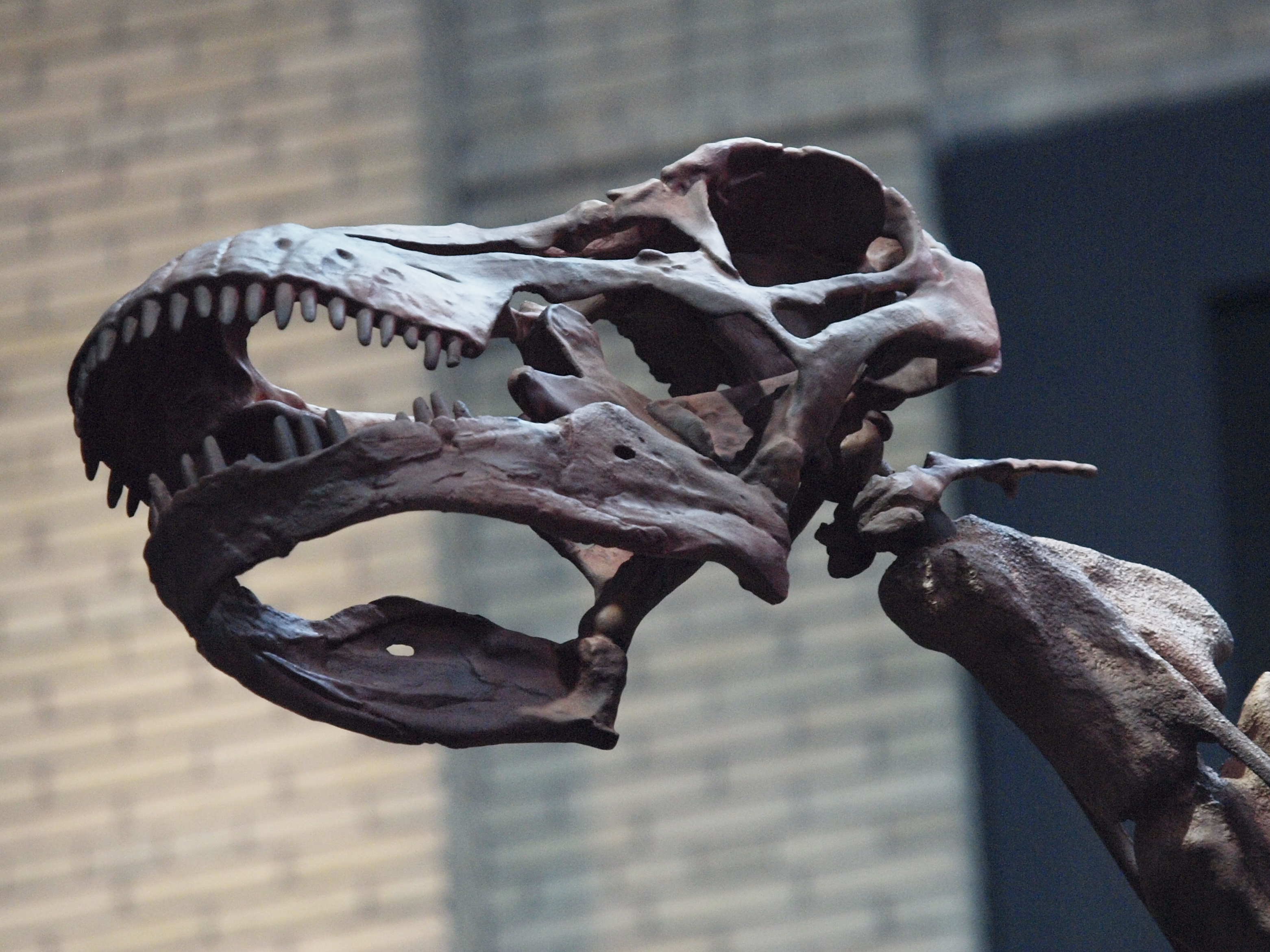 Skull of Futalognkosaurus on Display at the Royal Ontario Museum